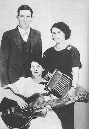 Carter Family promotional portrait by the Victor Talking Machine Company.